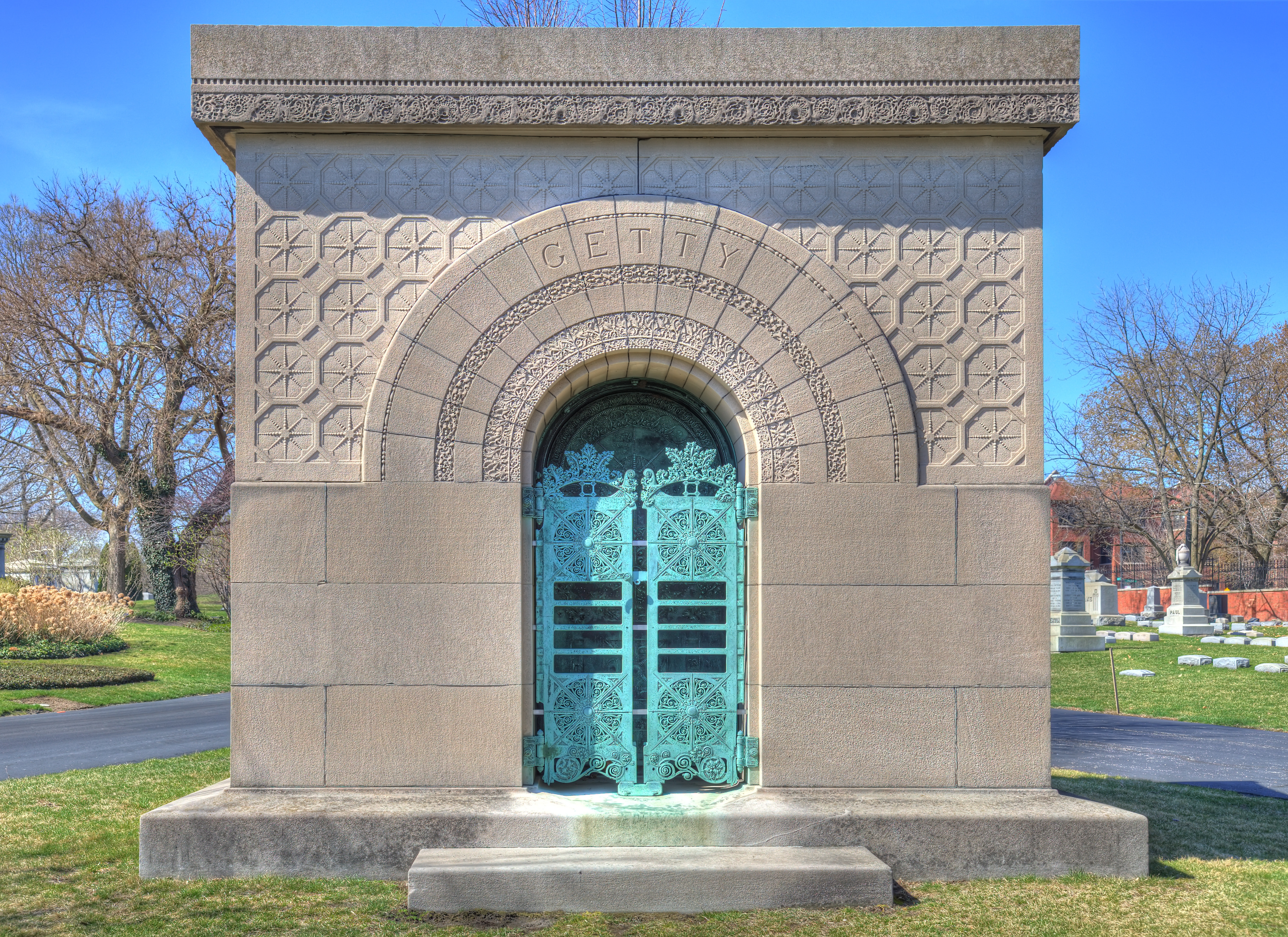 The Eliza Getty Tomb, designed by Louis Sullivan. HDR technique.